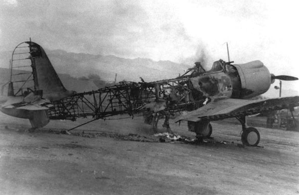 One of the seven Vought SB2U-3 Vindicators of U.S. squadron VMSB-231 destroyed on the field at Ewa during the attack on Pearl Harbor, Oahu, Hawaii (USA), on 7 December 1941. All of VMSB-231's spares (the squadron was embarked in the USS Lexington (CV-2), en route to Midway, at the time) were thus destroyed. In the background is one of VMSB-232's Douglas SBDs.